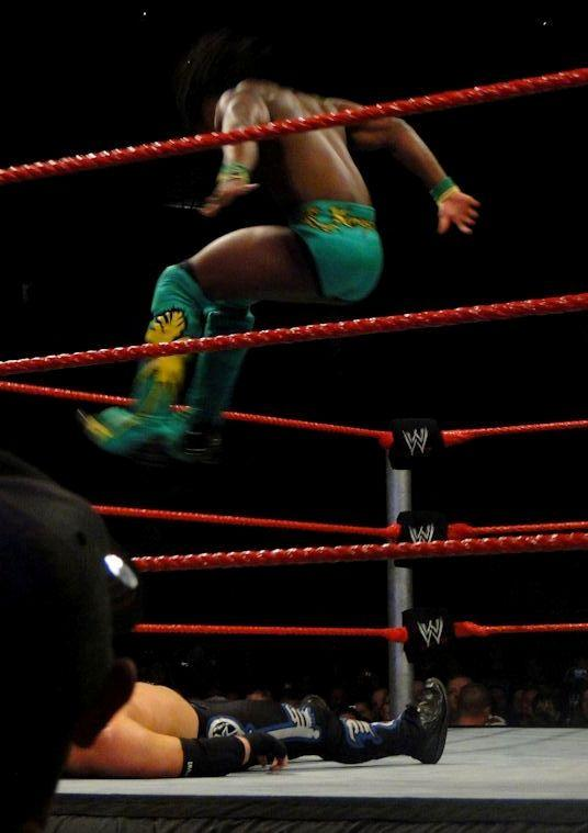 Leg Drop, Kofi Kingston performed on Matt Hardy